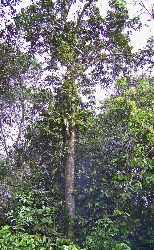 Tengkawang tree (Shorea sp.), from Sungai Utik, Kapuas Hulu, West Kalimantan, Indonesia